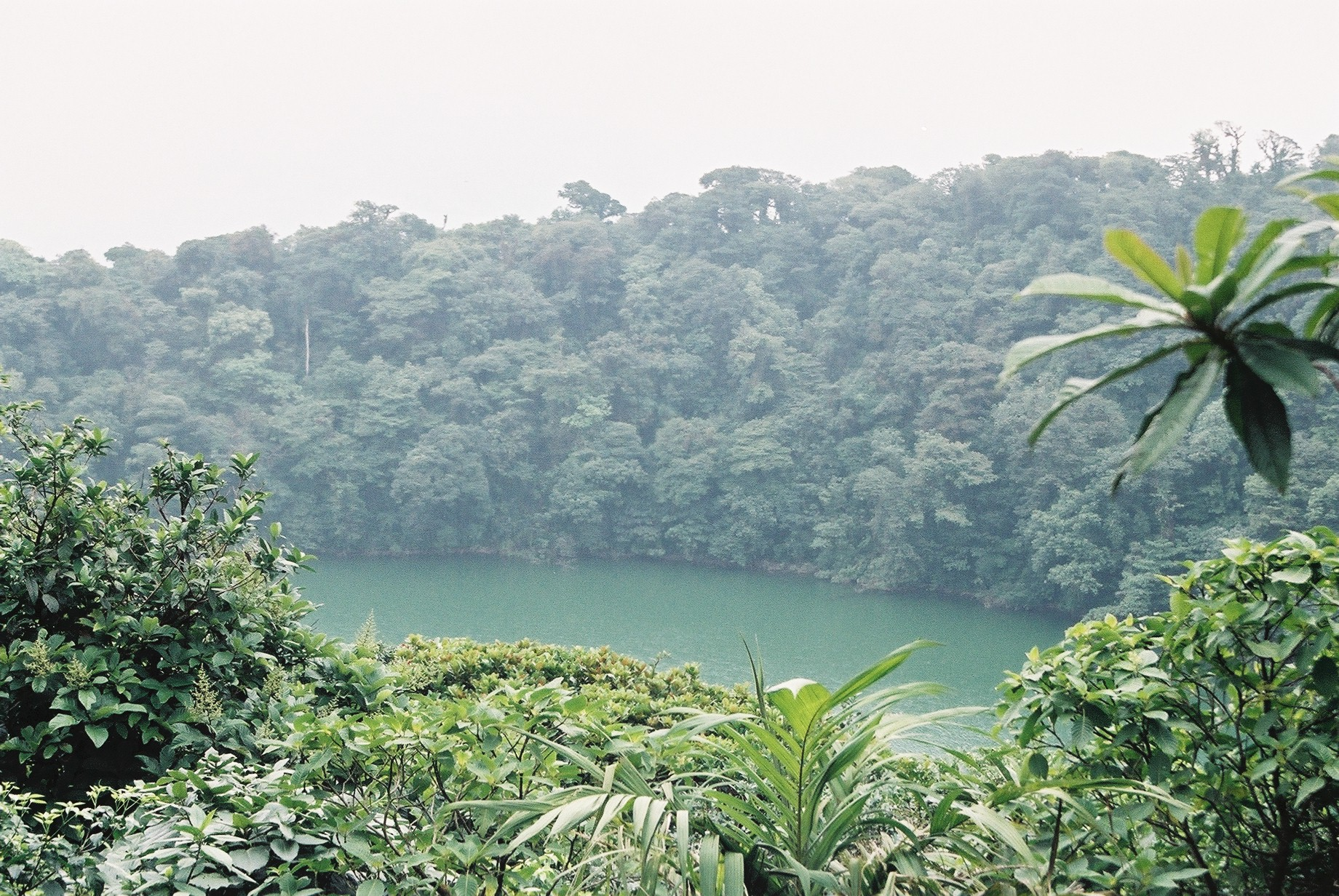 The crater lake, Laguna Cerro Chato, of Cerro Chato volcano — in Costa Rica.